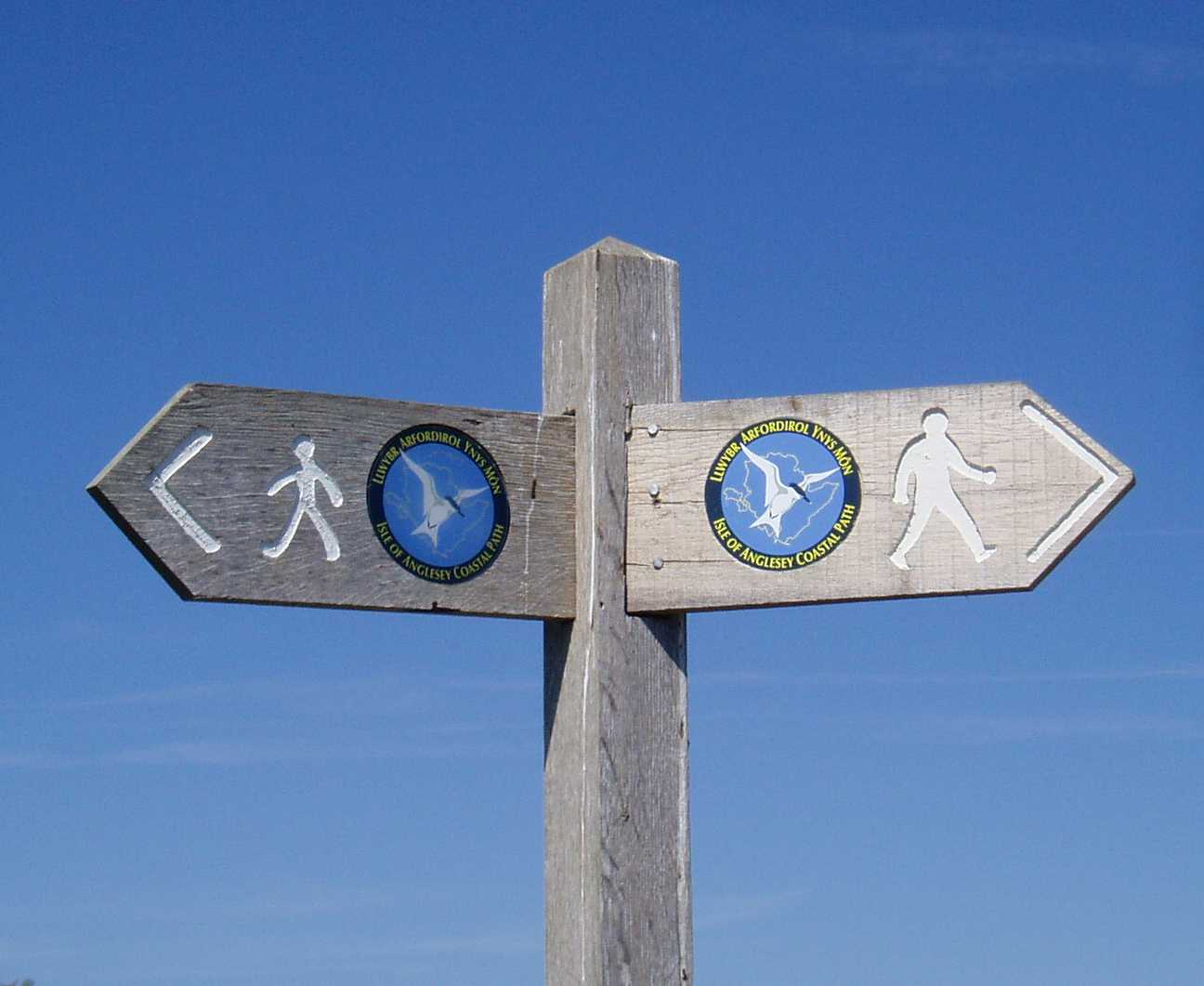 Anglesey Coastal Footpath sign photograph taken by D22, 15/7/06